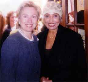 Snapshot Photo of Lara Saint Paul and Hillary Clinton meeting at a charity event in Los Angeles.